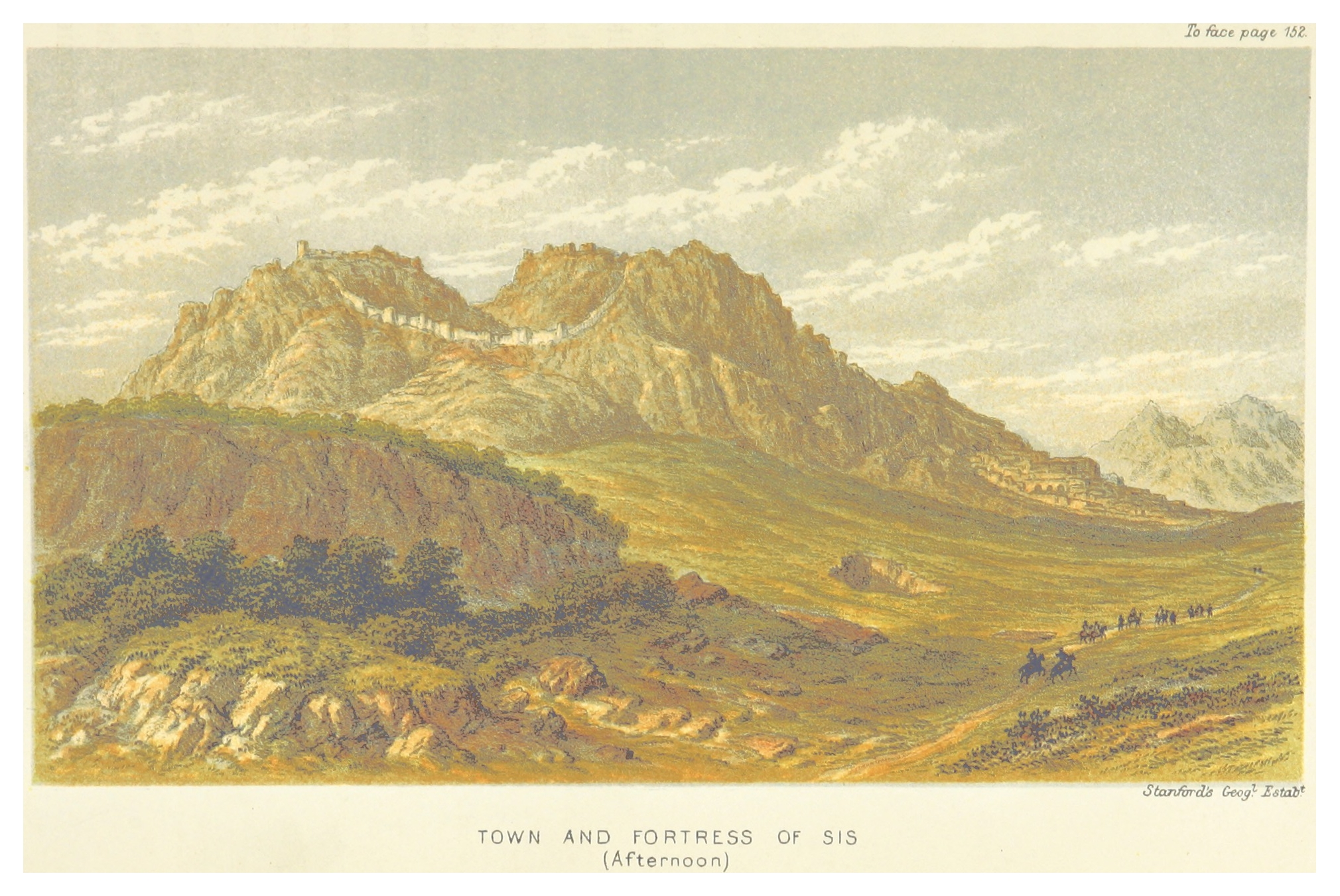 Kozan (formerly Sis, Armenian: Սիս) is a city in Adana Province, Turkey, 68 kilometres (42 miles) north of the city of Adana, in the northern section of the Çukurova plain. The city is the capital of Kozan district.